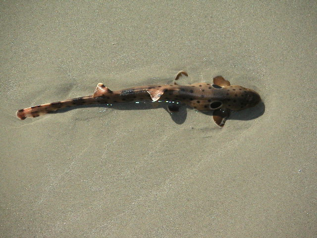 Epaulette shark (Hemiscyllium ocellatum) on a beach in Port Tribulation, Queensland.